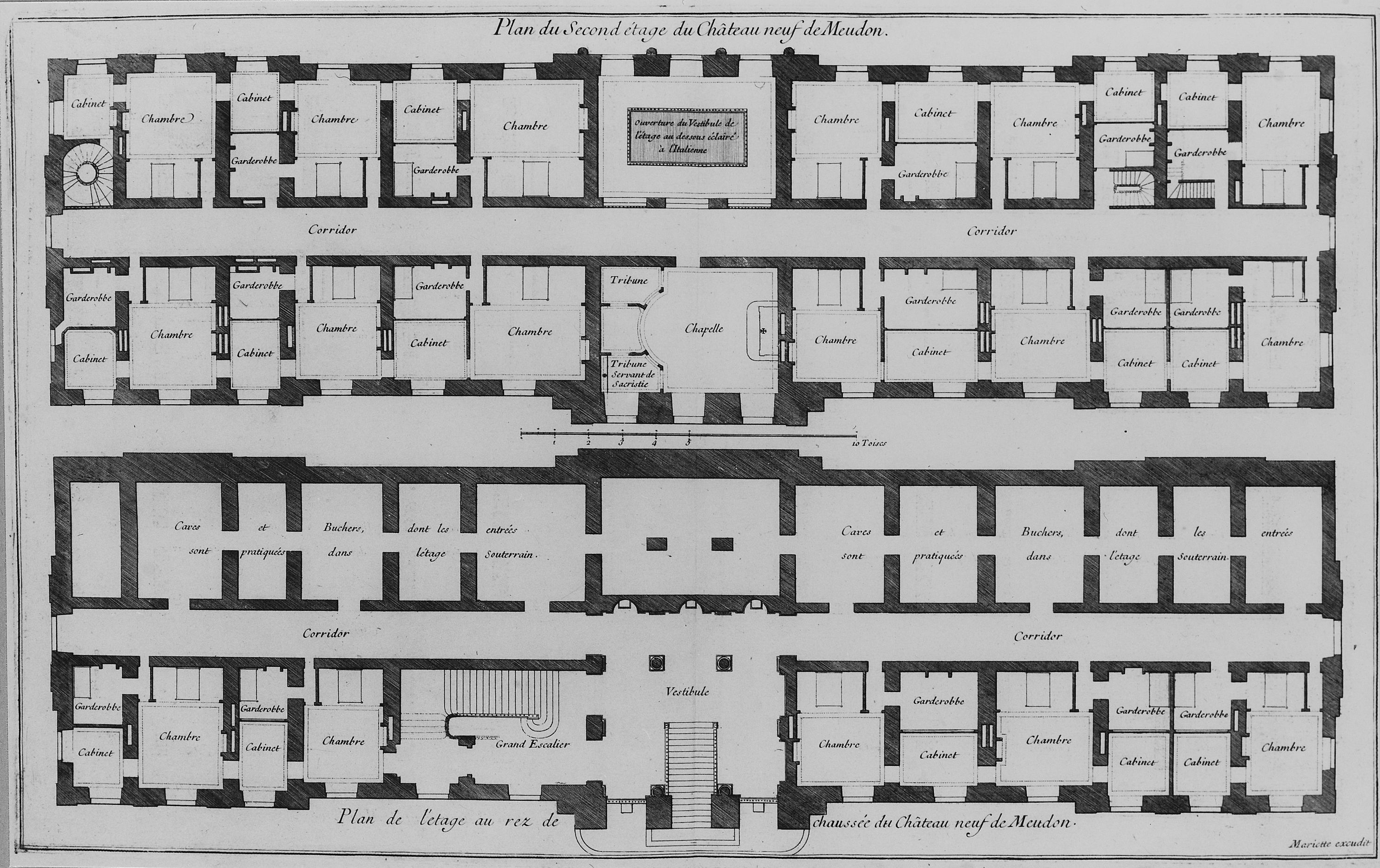 Plans of ground floor and second floor of the Chateau Neuf of Meudon